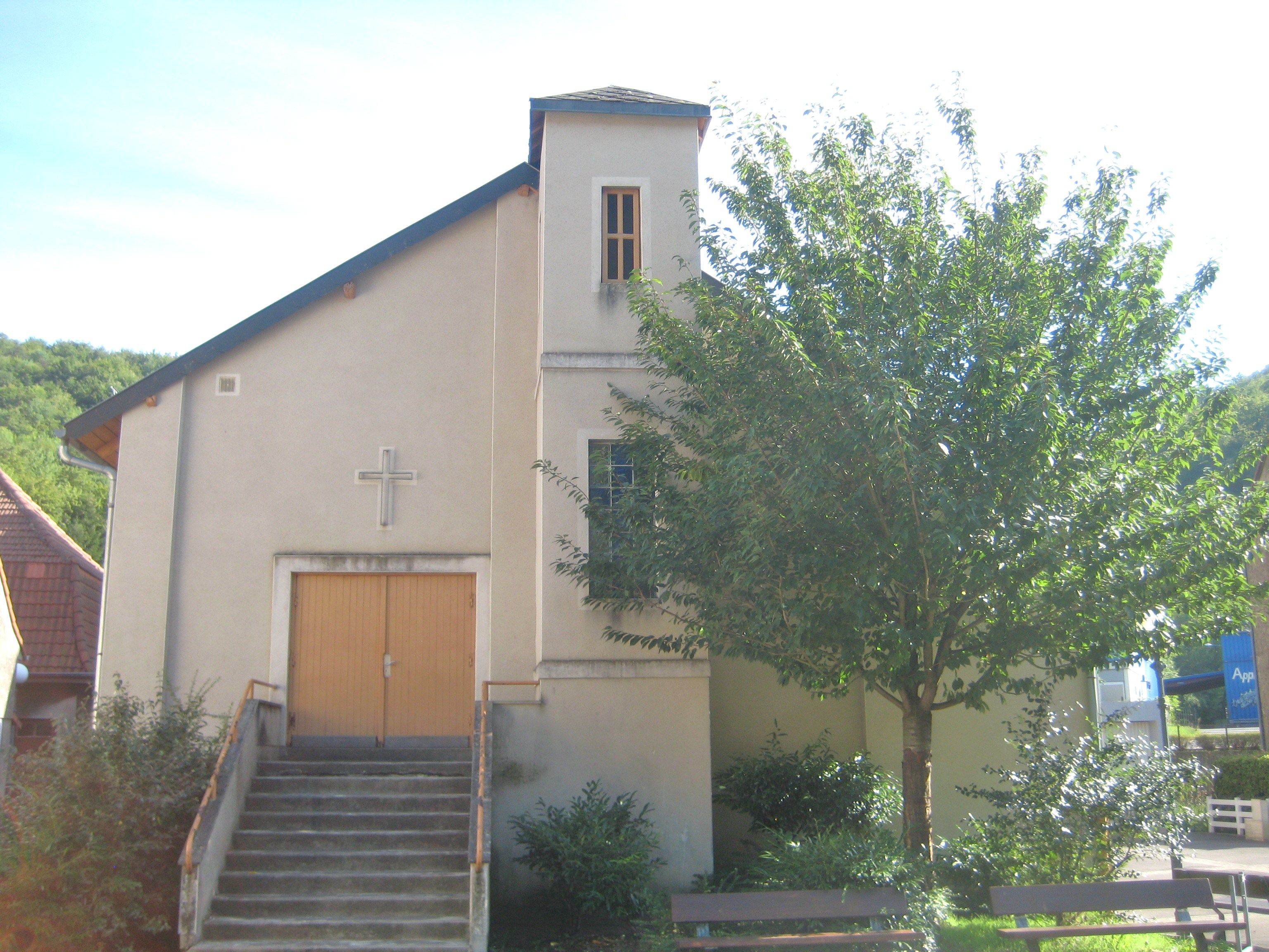 Description chapelle Haut-Pont Fontoy Date7 September 2011Sourcemon appareil photoAuthorAimelaimePermission(Reusing this file) chapelle Haut-Pont Fontoy